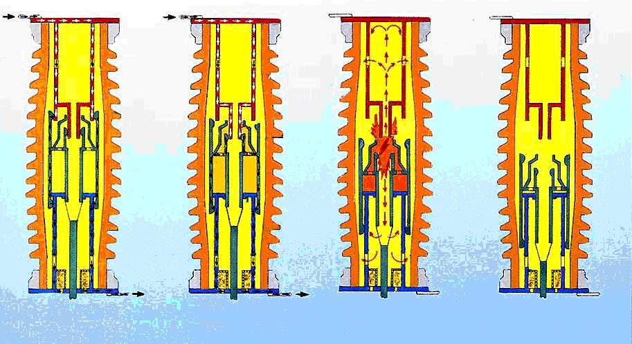 Gas circuit breaker operation. Reuploaded. The original upload was named "Fig 1.jpg". What a surprise, someone uploaded a different, unrelated image on top of it. (For an article that is orphan, no less.) I have copied the original image here, under a descriptive name, rather than fight for "Fig. 1". The original uploader of this image was Dingy, on 2005.07.23.